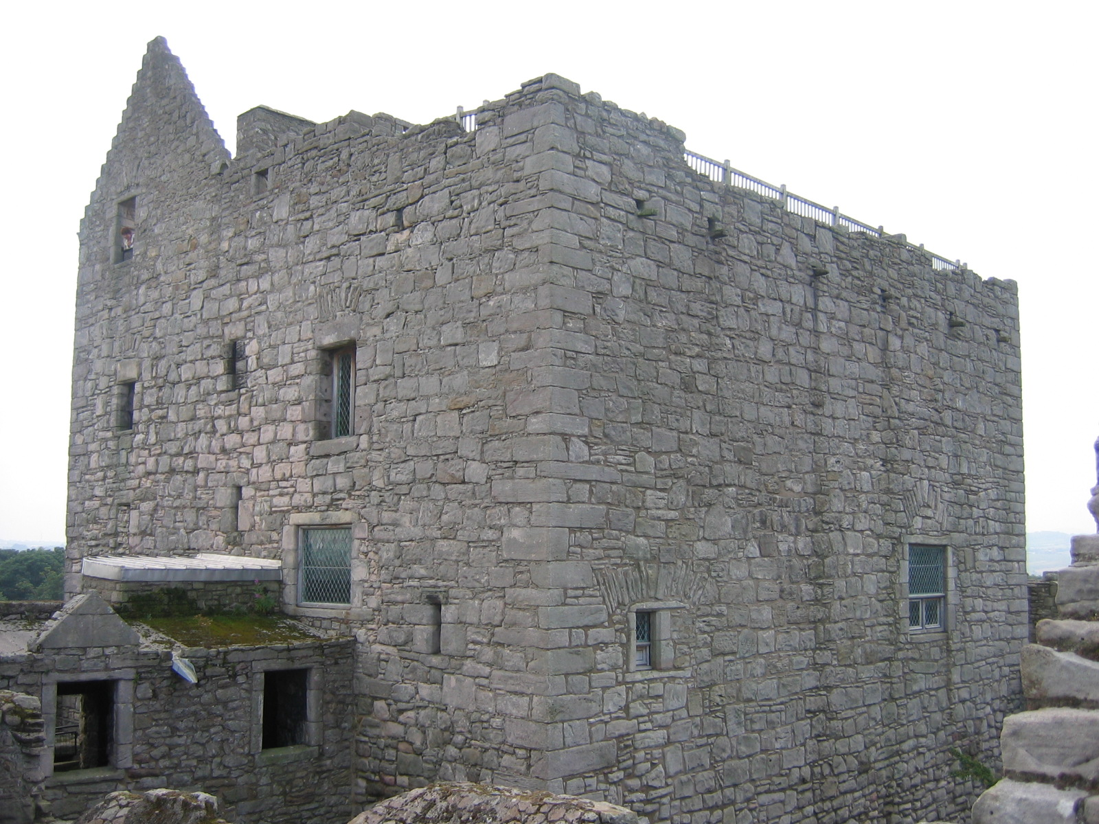 Craigmillar Castle, Edinburgh, Scotland. Upper part of the tower house from the inner courtyard wall.